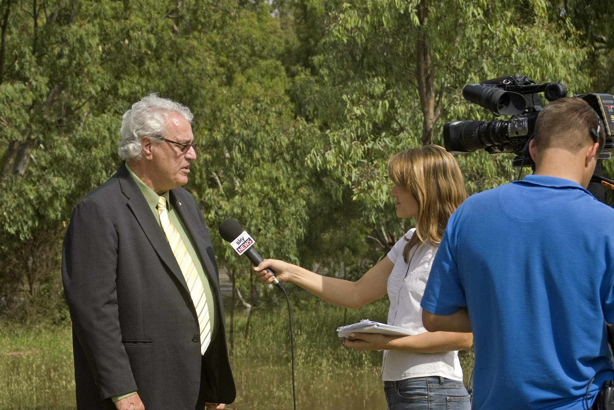 Sky News Australia reporter, Gemma Veness interviews the City of Wagga Wagga Mayor, Wayne Geale.